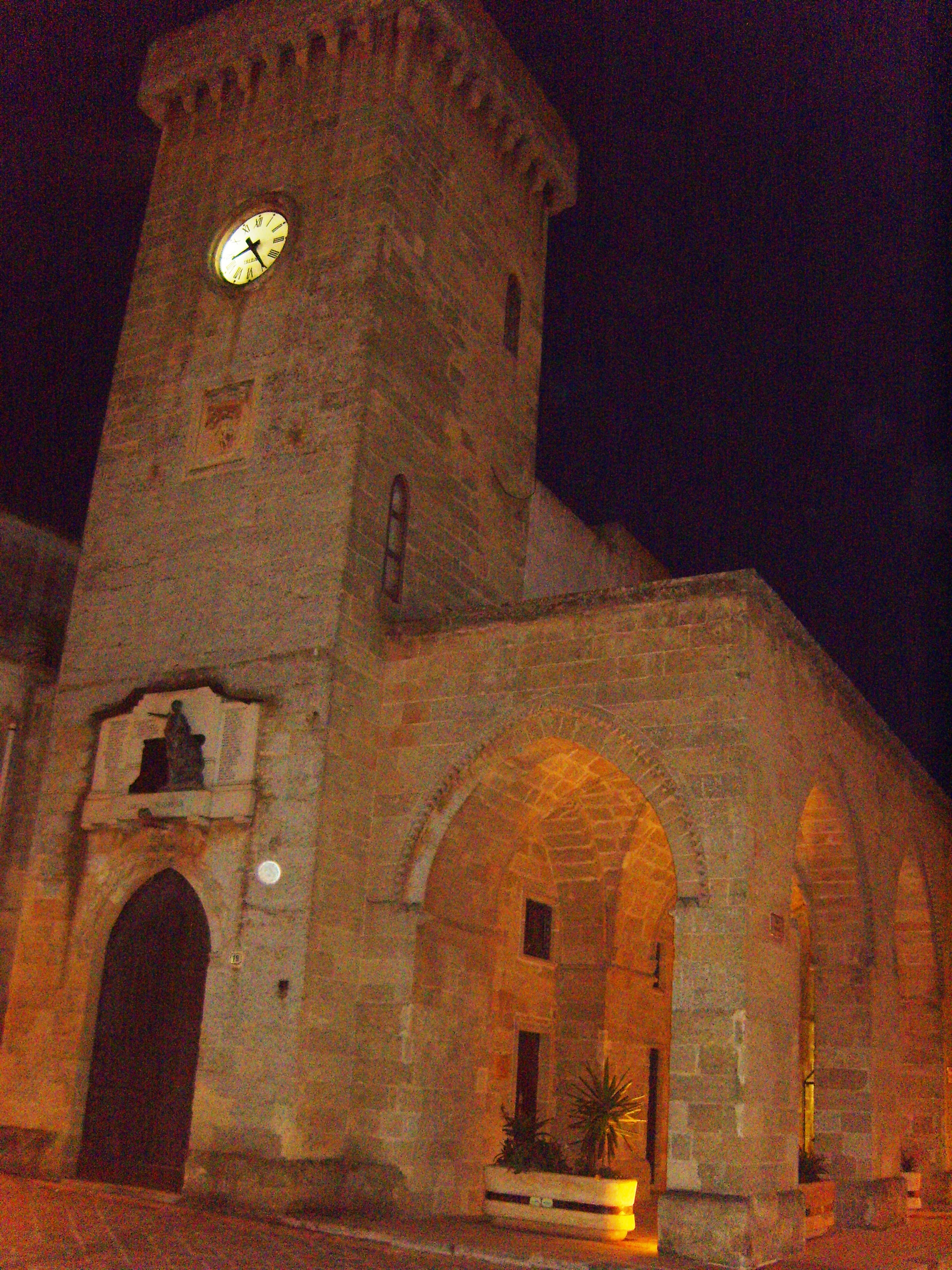 Ugento clock tower, Province of Lecce - Apulia (Italy)